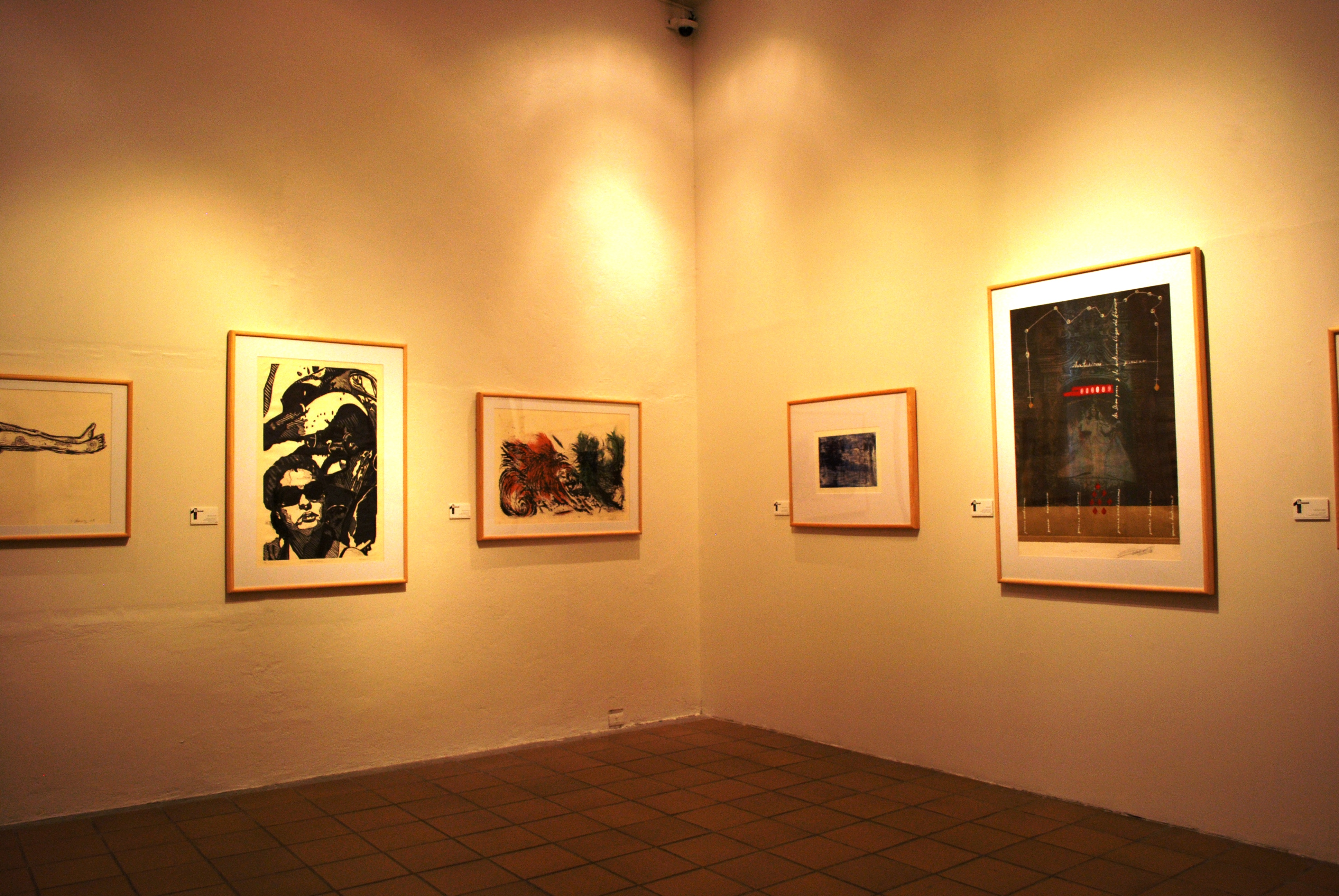 One of the exposition rooms at the Museo Nacional de la Estampa, Mexico City